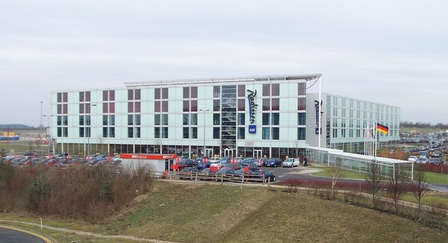 Radisson Hotel at Stansted Airport Viewed from the front of the main terminal building. See also 709027.